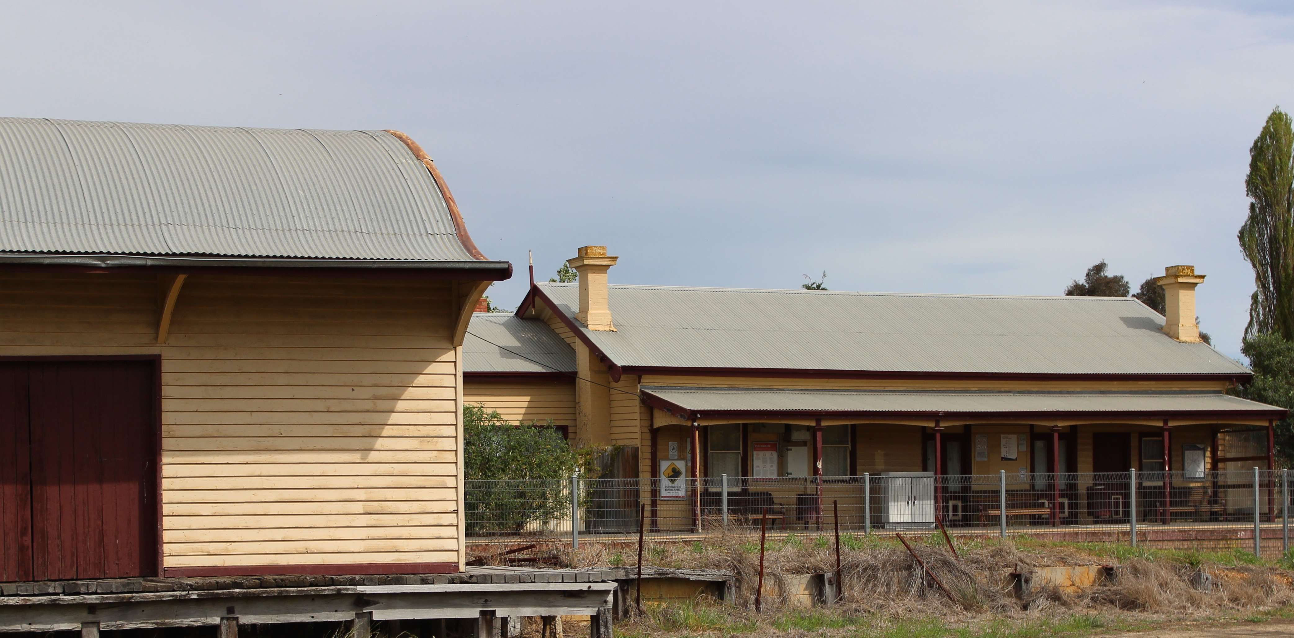 Rosedale Railway Station sf Goods Shed